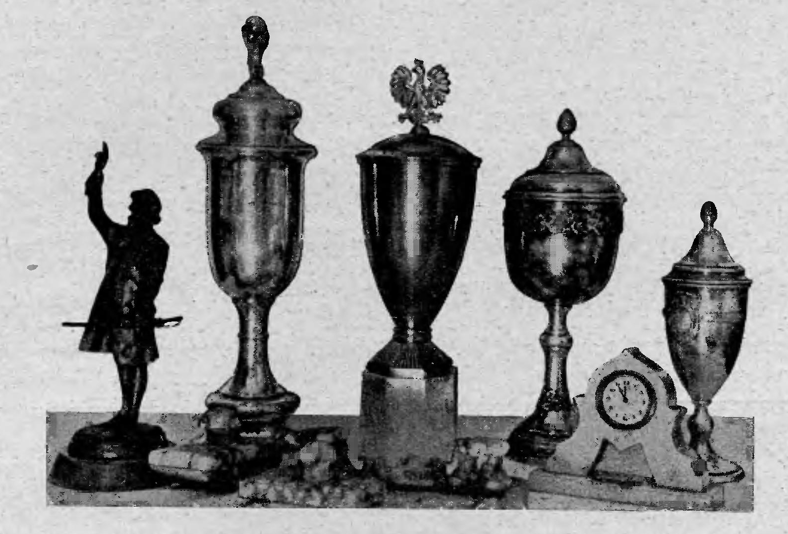 TG Sokol Czeladź 1936.